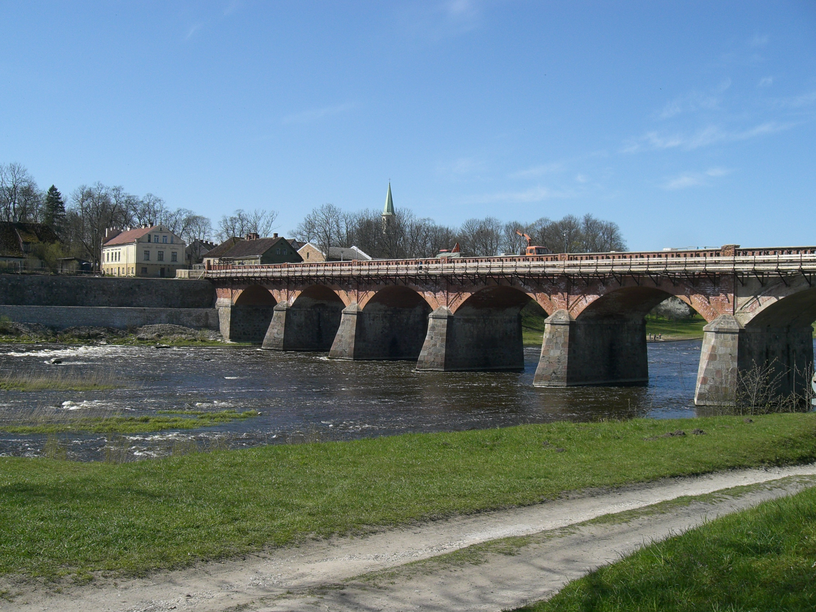 Bridge above the river Venta in Kuldīga, Latvia